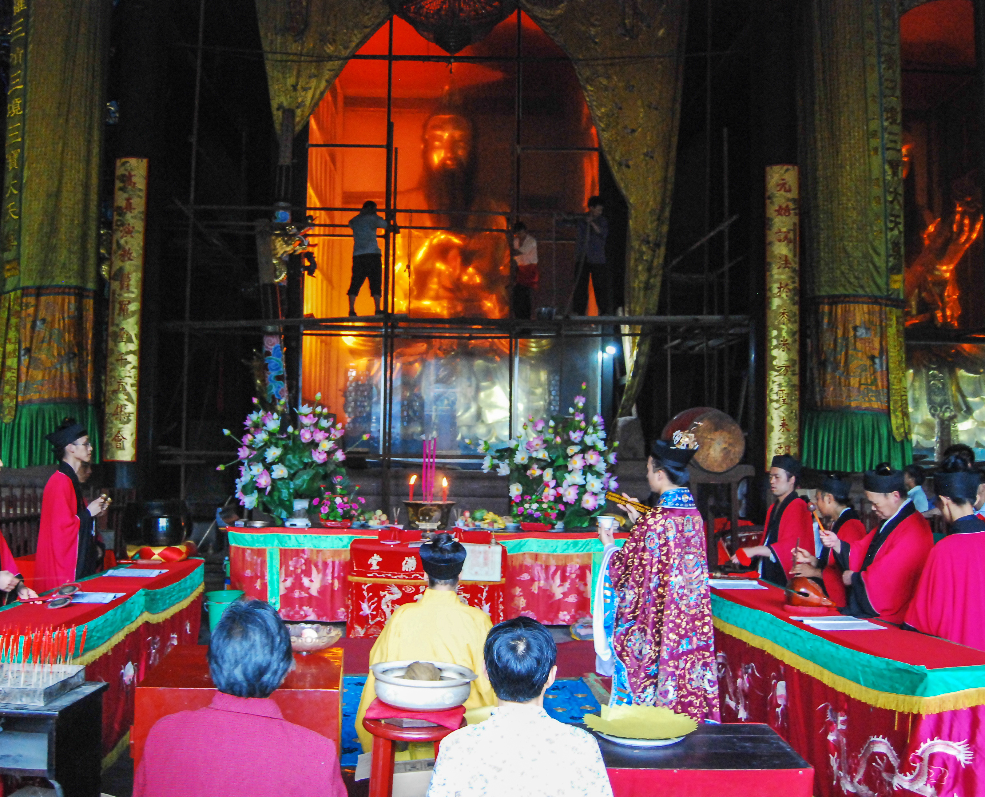 Ceremony at the Qingyang Taoist Temple 中文（中国大陆）: 青羊宫法事